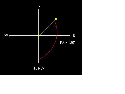 Illustration of position angle, as seen through a telescope eyepiece.